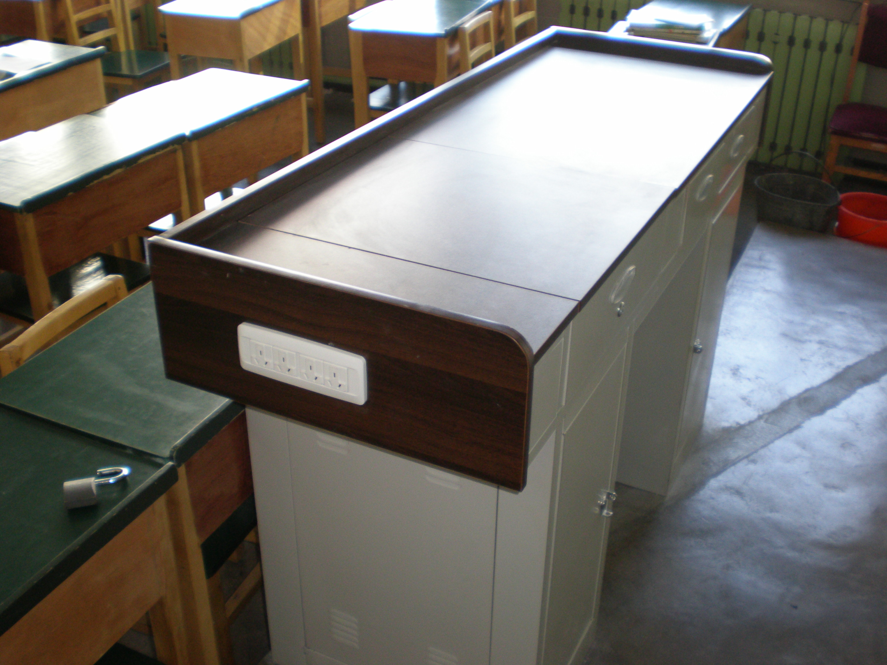 Computer-installed desk in Urumqi No.1 High School